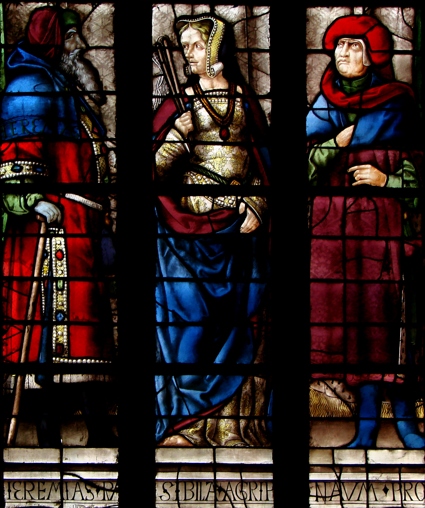 One of the 18 Renaissance stained glass windows of Auch cathedral by Arnaud de Moles.In the middle: a sibyl.